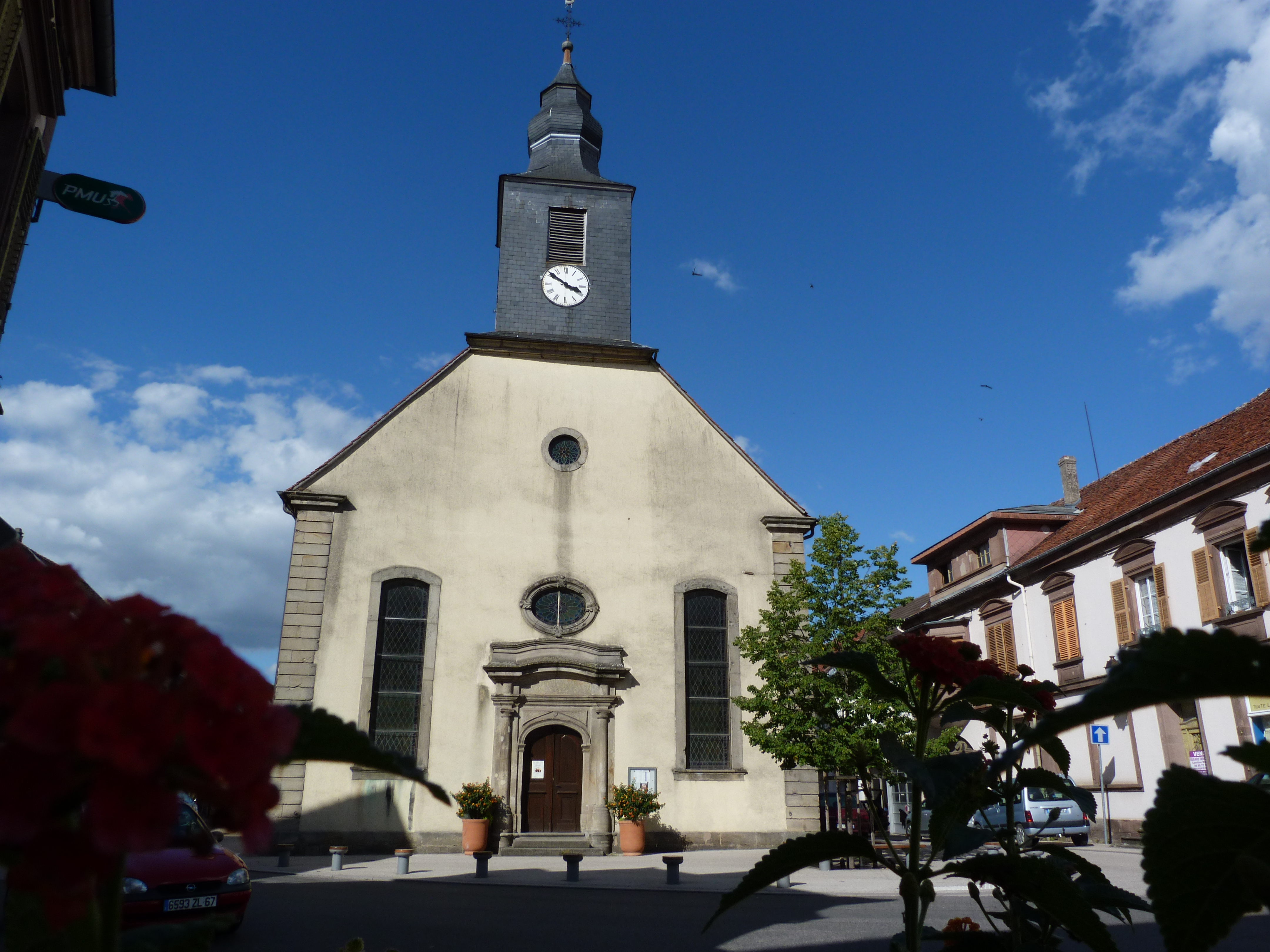 This building is indexed in the Base Mérimée, a database of architectural heritage maintained by the French Ministry of Culture, under the references PA00084694 and IA67000703 .